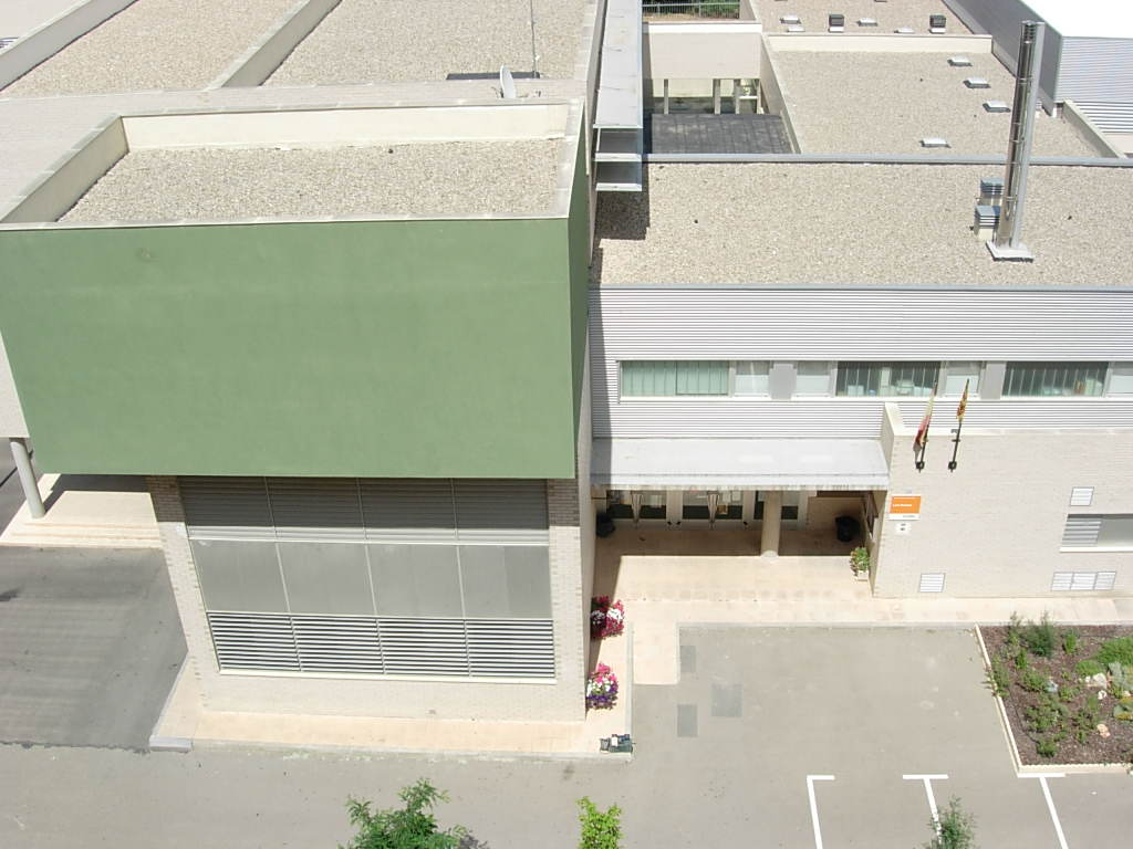 High school "Luis Buñuel", Zaragoza (Aragon)